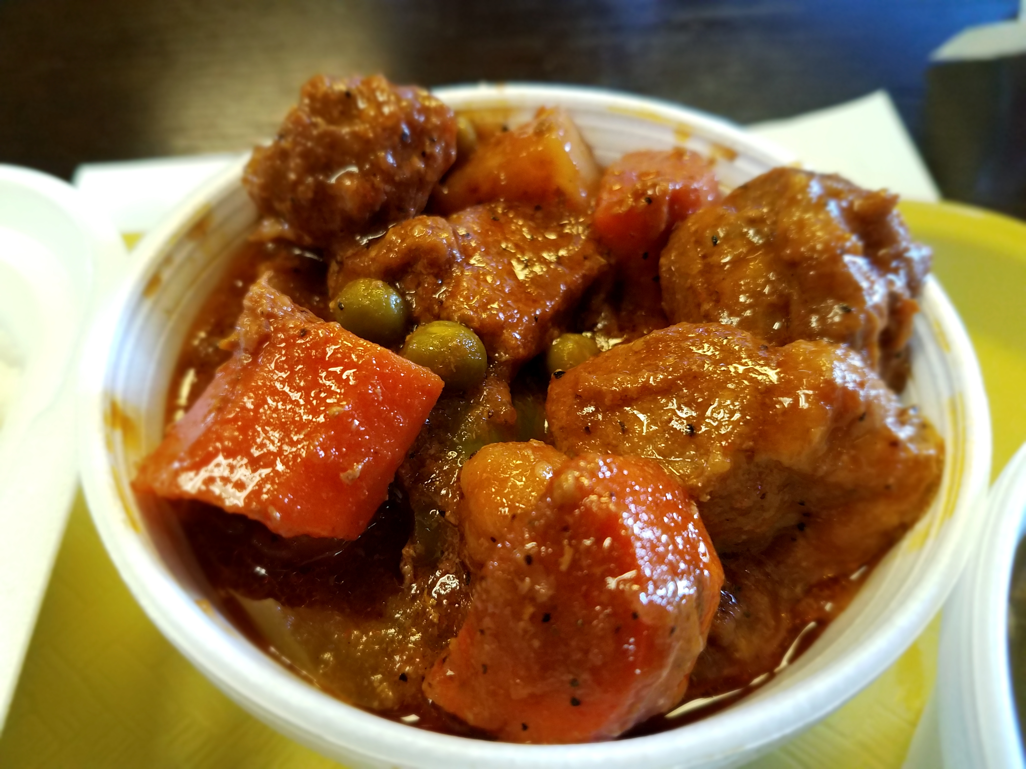 Menudo served at Oriental Valley Filipino Cuisine in the Rancho Peñasquitos neighborhood of San Diego